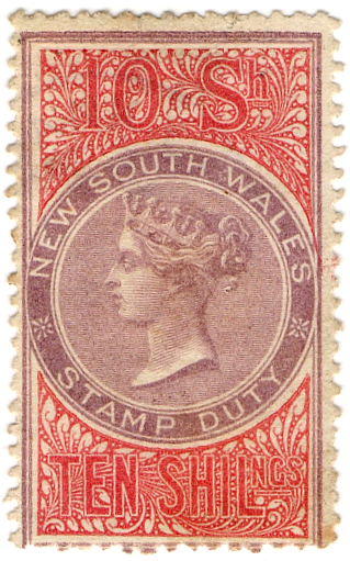 New South Wales stamp duty revenue stamp 10 shillings.